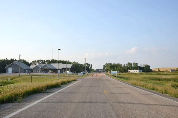 Approaching the Fortuna ND border station from the south